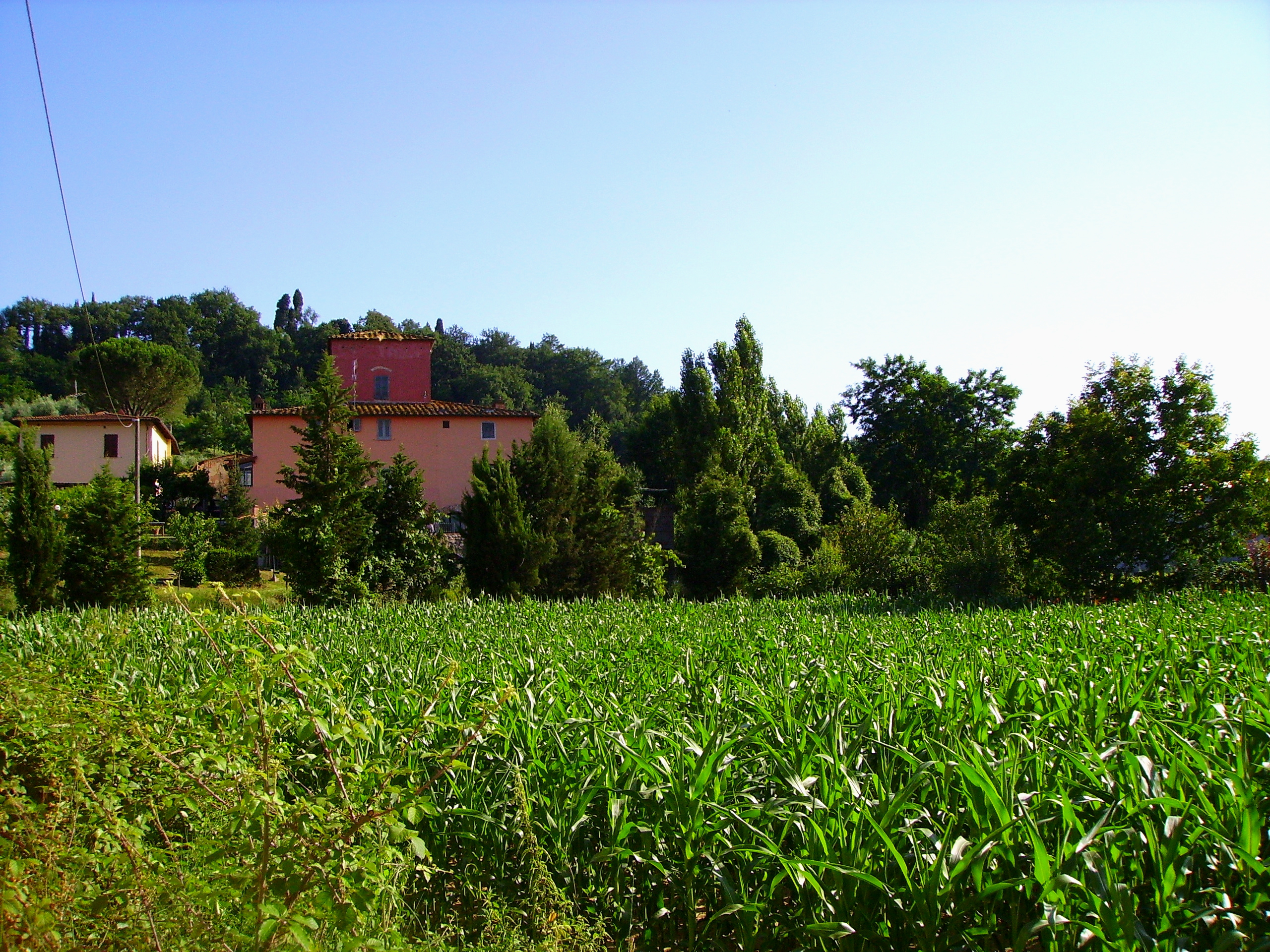 La Loggia Farm in Montevarchi, one of the gates of Montevarchi Castle